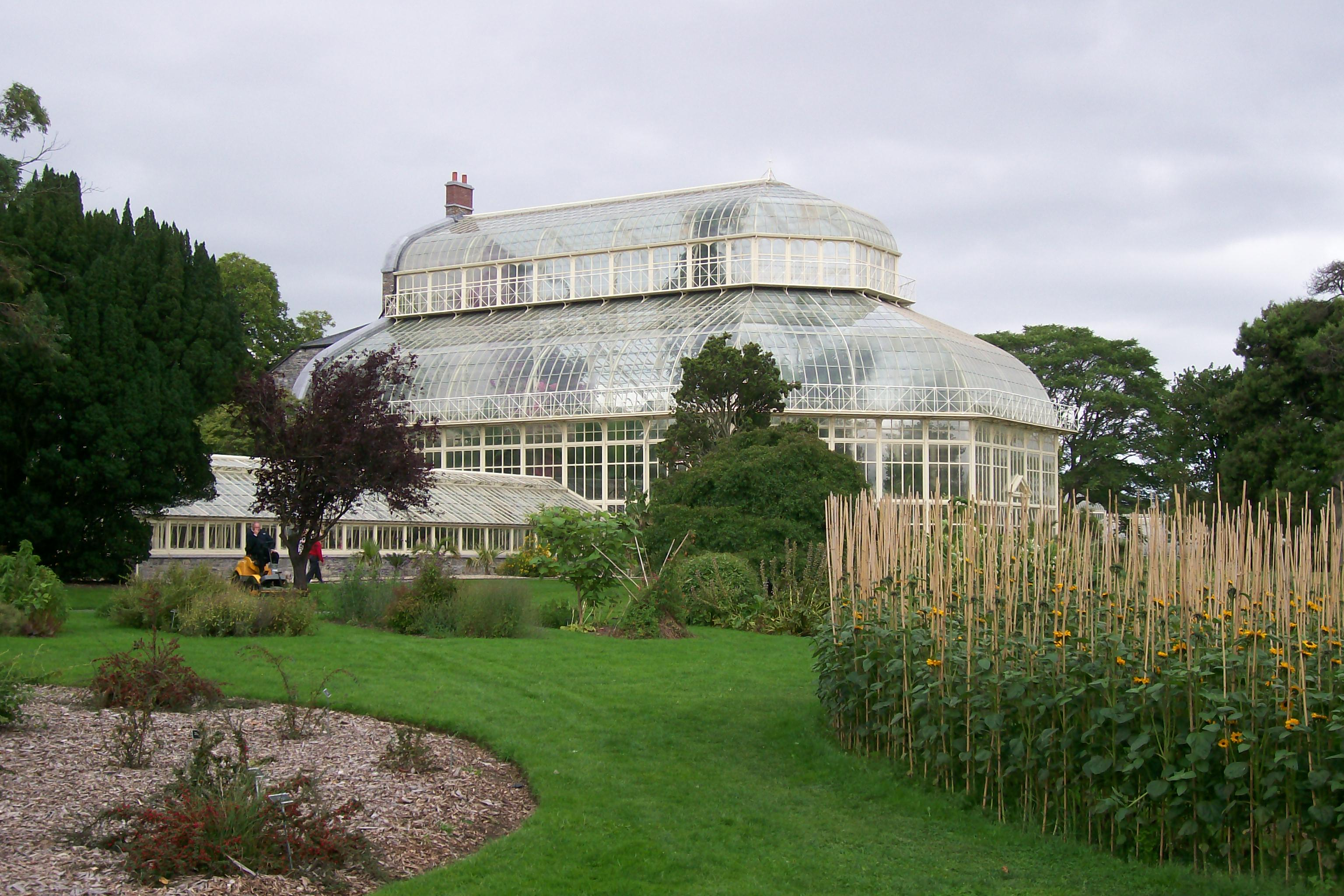 Editor's own picture